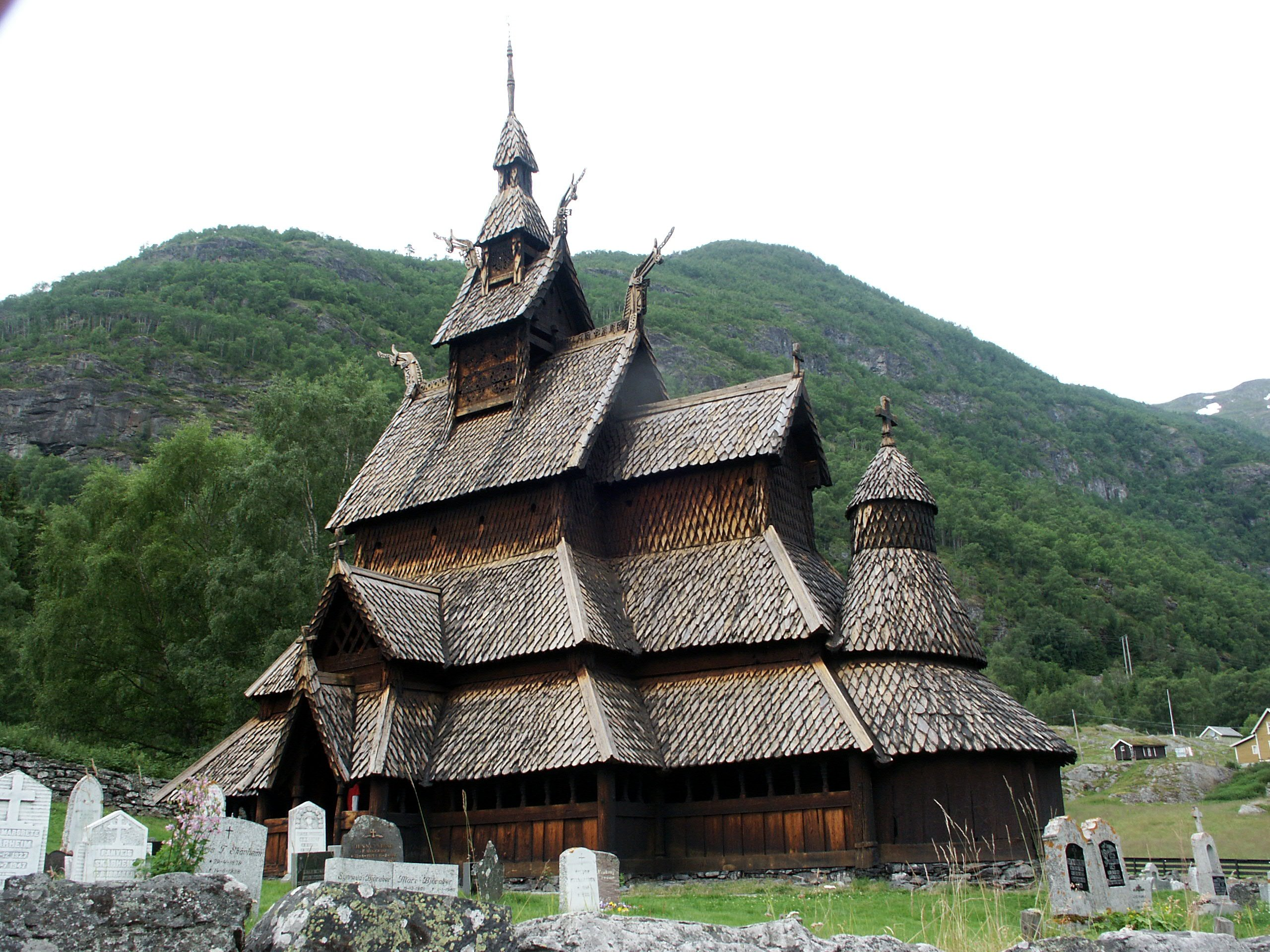 Borgund stave church, Sogn og Fjordane county, Norway